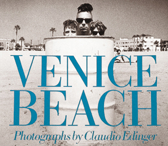 Livro Venice Beach